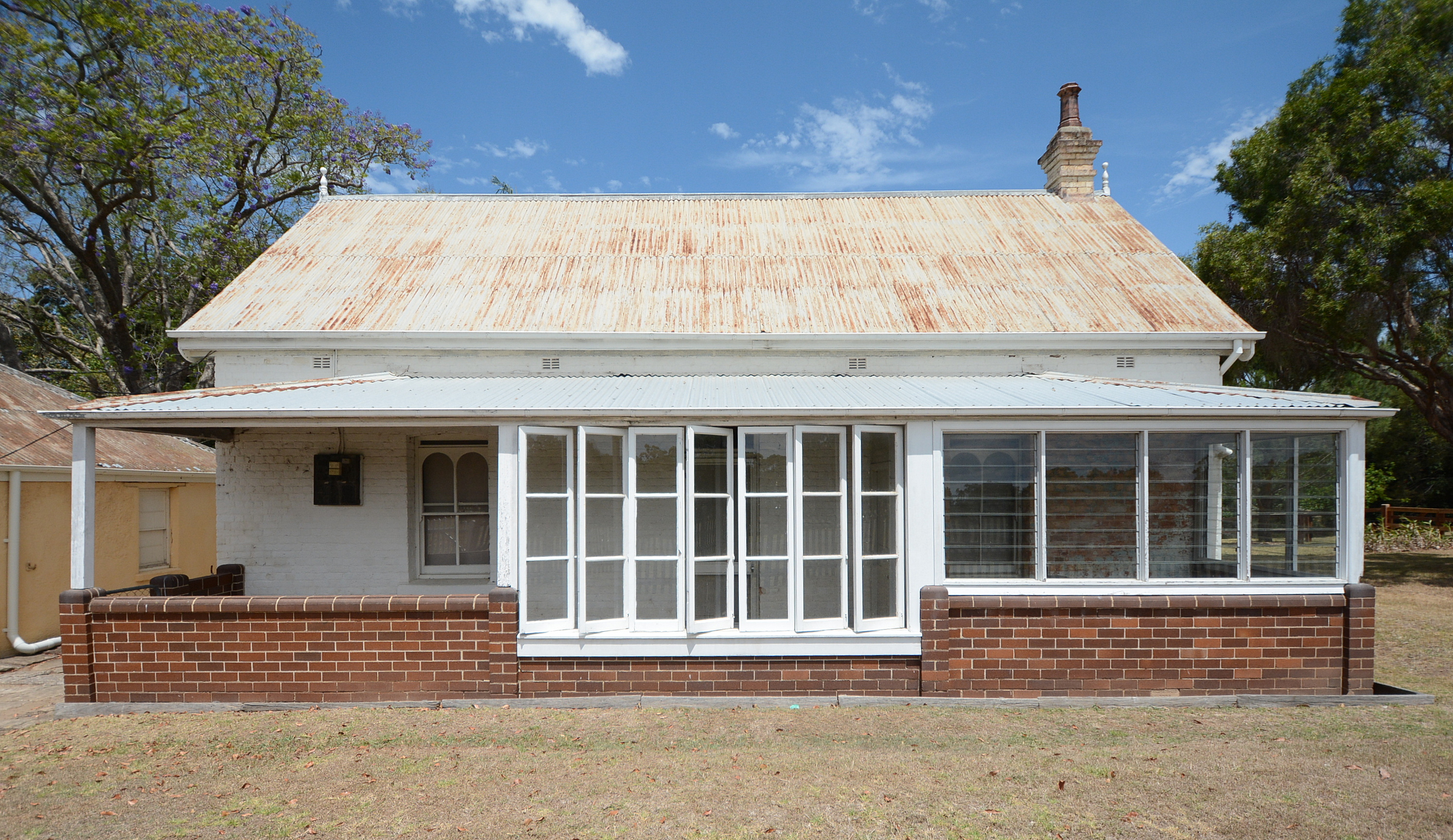 Ranger's Cottage, Parramatta Park, Parramata, Sydney